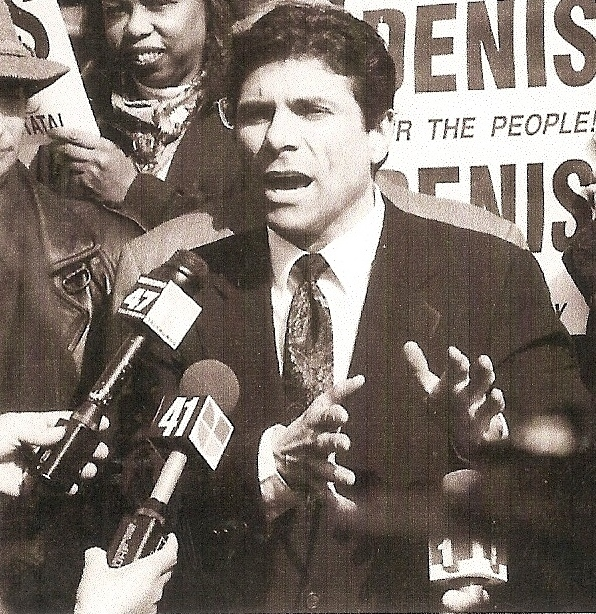 Denis Rally Author = Nelson Denis Source = Nelson Denis.